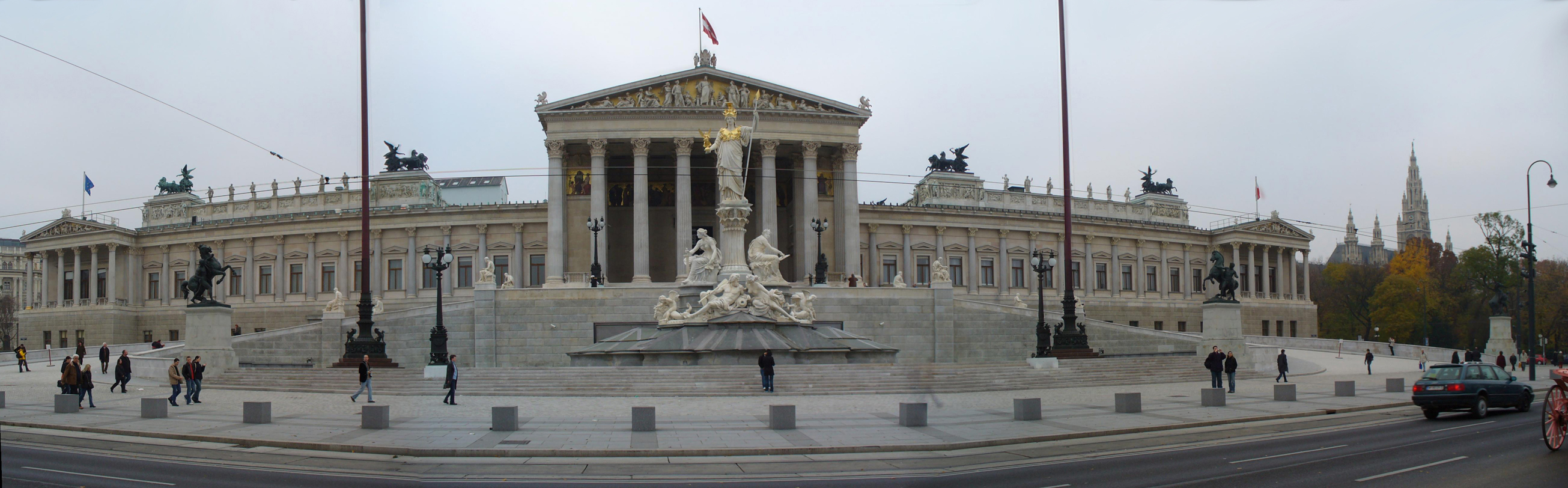 Austria, Vienna, Austrian Parliament Building